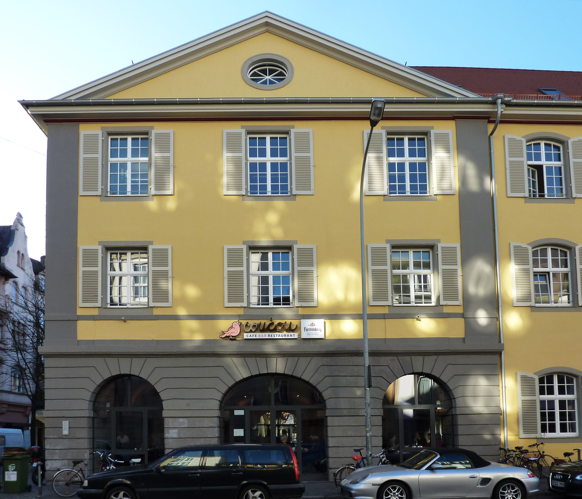 Einziger erhaltener Torbau (Porte Saint-Martin) der ab 1677 errichteten und 1745 geschleiften Barockbefestigung. Ursprünglich zweigeschossig, später aufgestockt. 1903 Abbruch des Ostflügels.